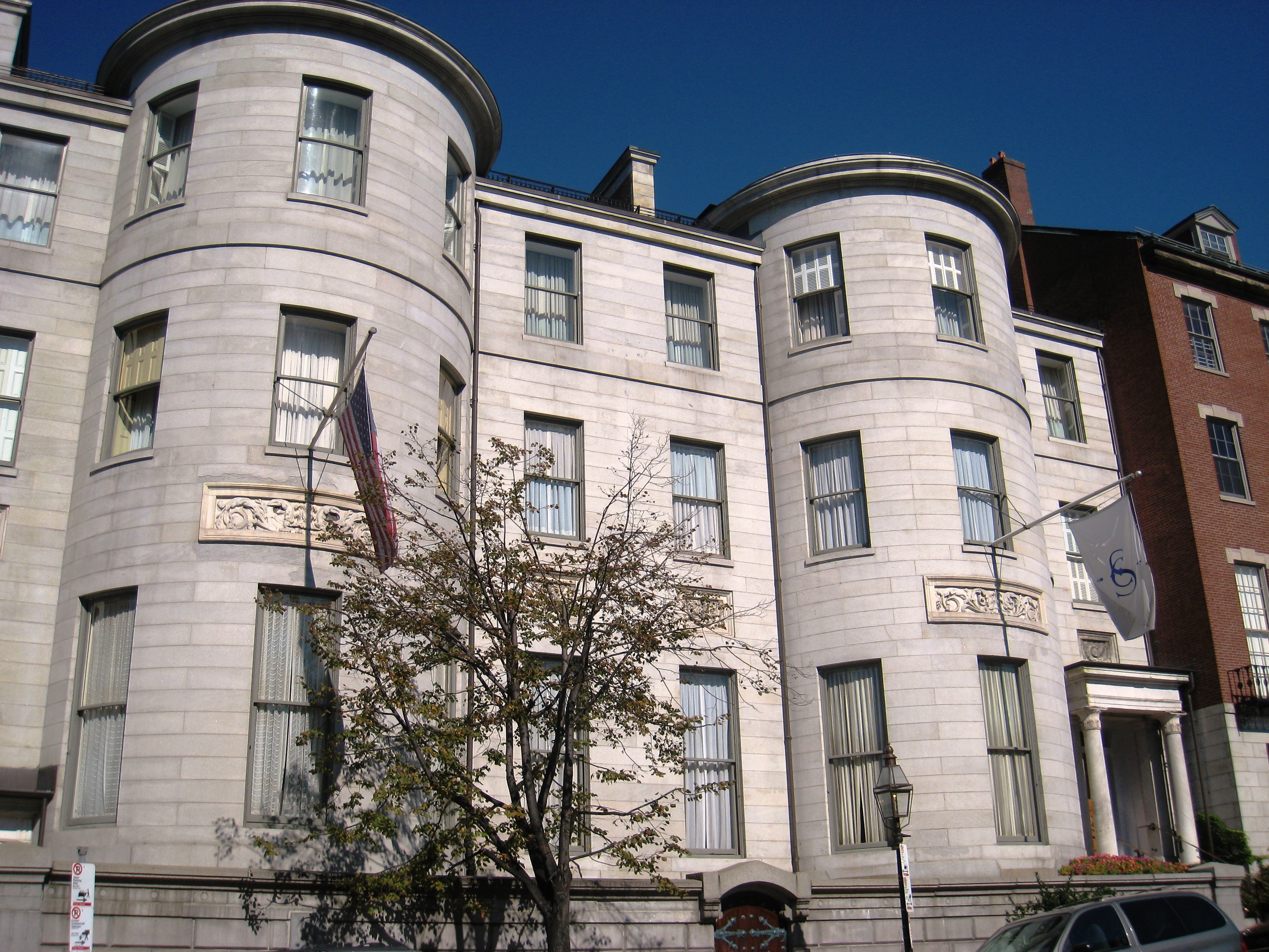 Somerset Club, 42-43 Beacon Street, Boston, Massachusetts, USA. Architect Alexander Parris; built as a private house for David Sears, 1819 and 1832. I took this photograph.